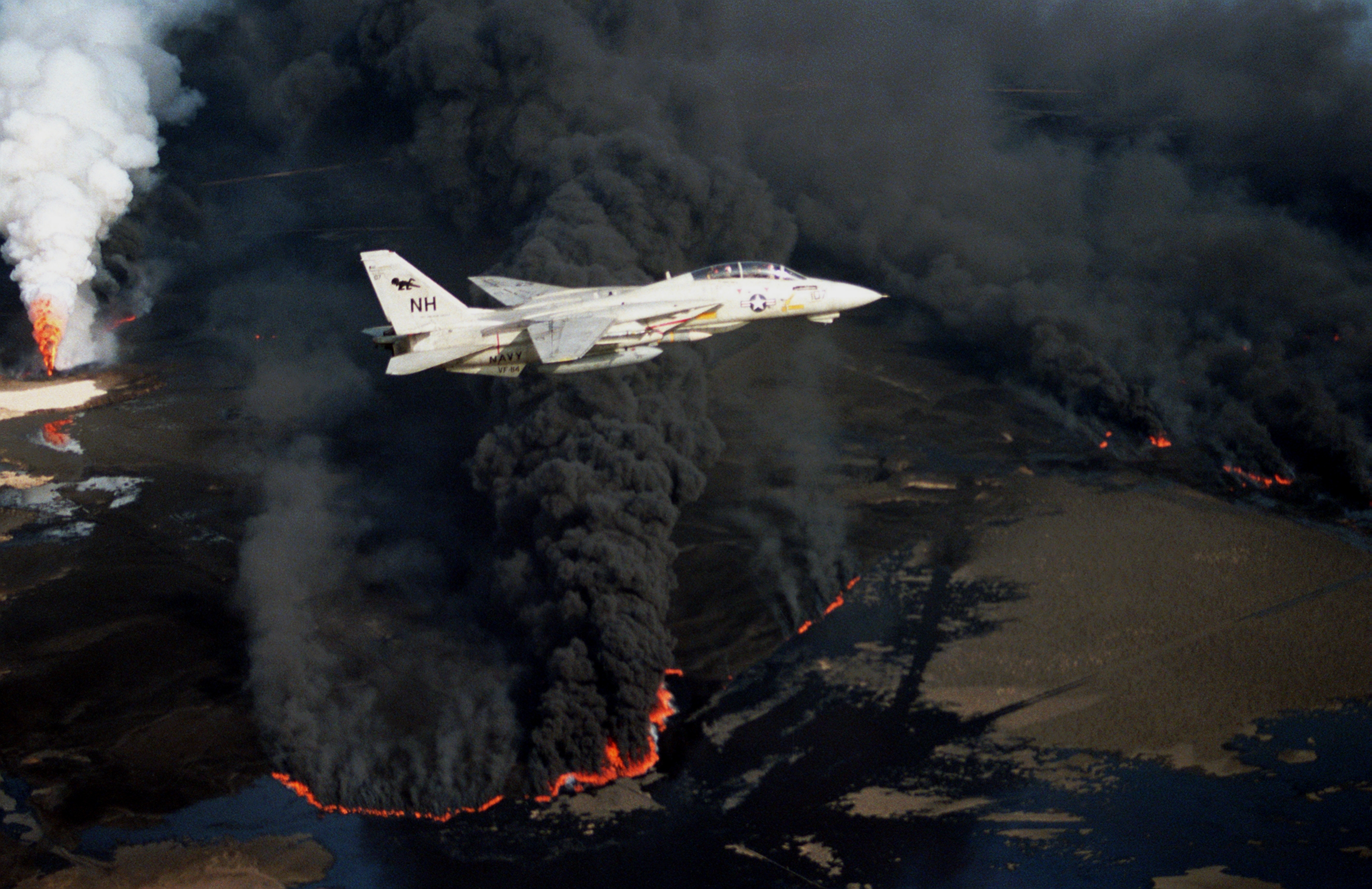 A U.S. Navy Grumman F-14A Tomcat from Fighter Squadron 114 (VF-114) Aardvarks flies over an oil well set ablaze by Iraqi troops during the 1991 Gulf War. VF-114 was assigned to Carrier Air Wing 11 (CVW-11) aboard the aircraft carrier USS Abraham Lincoln for a deployment to the Western Pacific and the Indian Ocean from 28 May to 25 November 1991. This was VF-114's last deployment before being disestablished on 30 April 1993.